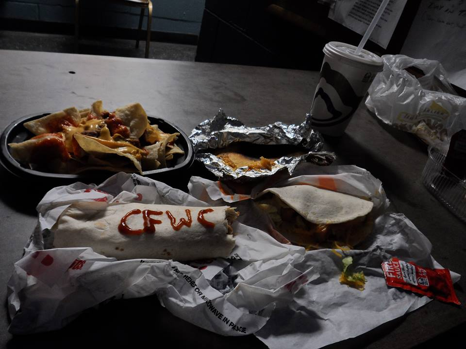 This is an image of menu items of the Taco Bell value menu Dollar Cravings. Pictured for the reader are the (top-down) Triple Layer Nachos, Shredded Chicken Mini Quesadilla, Cheesy Bean & Rice Burrito, and Spicy Potato Soft Taco.